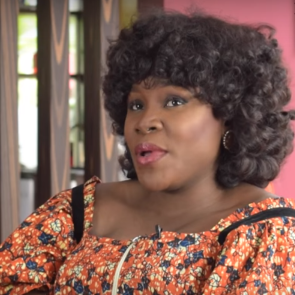 Omawunmi (Omawunmi Megbele) Speaking On Friendship With Labo Daniel 26 Jul 2016